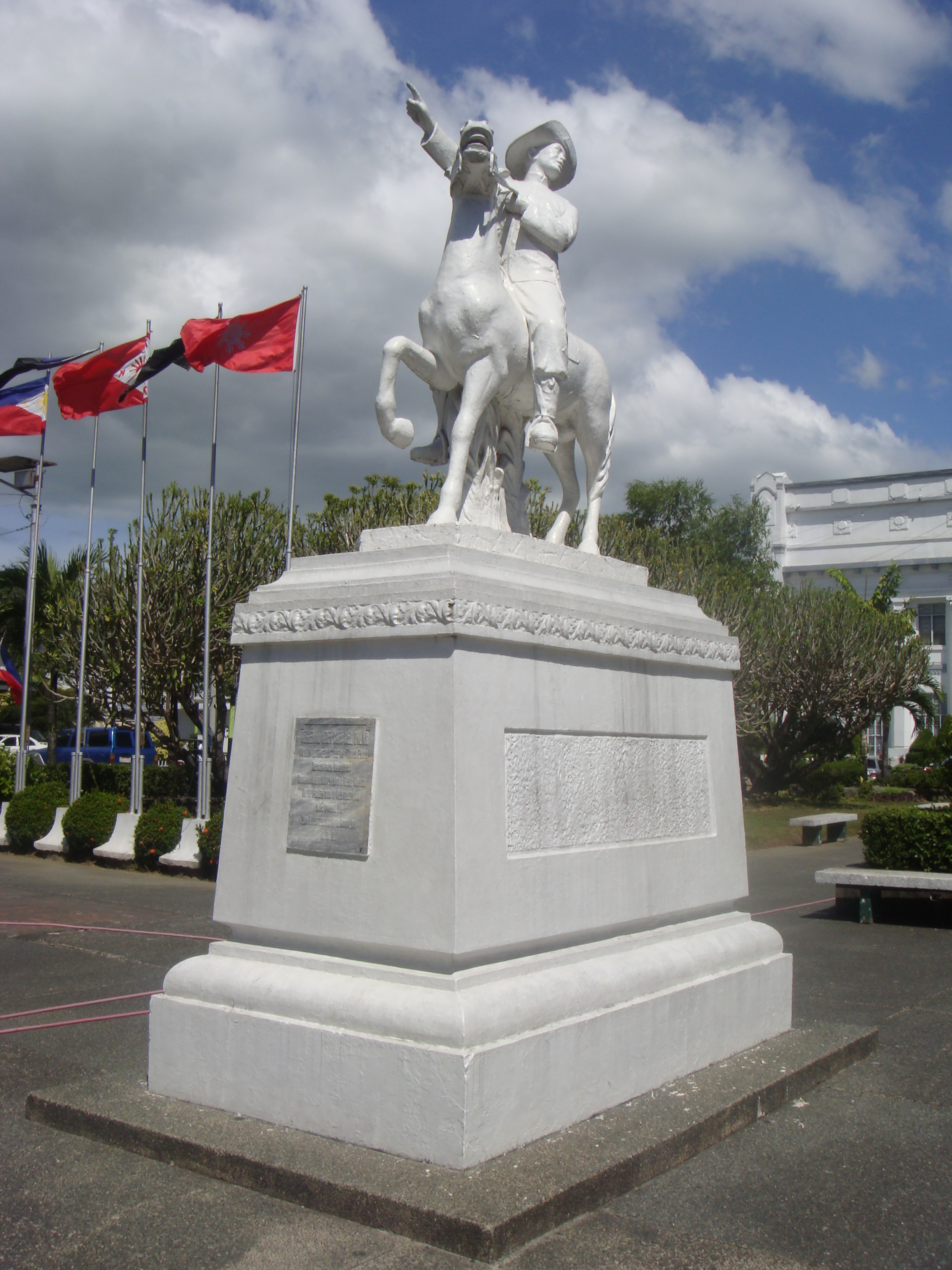 Gregorio del Pilar's Tomb, located at the front plaza of Bulacan Provincial Capitol, containing the remains of the young general,topped with equestrian statue of the hero of Tirad Pass.